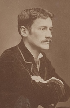 Thomas Wilmer Dewing (1851-1937), photograph as a young man